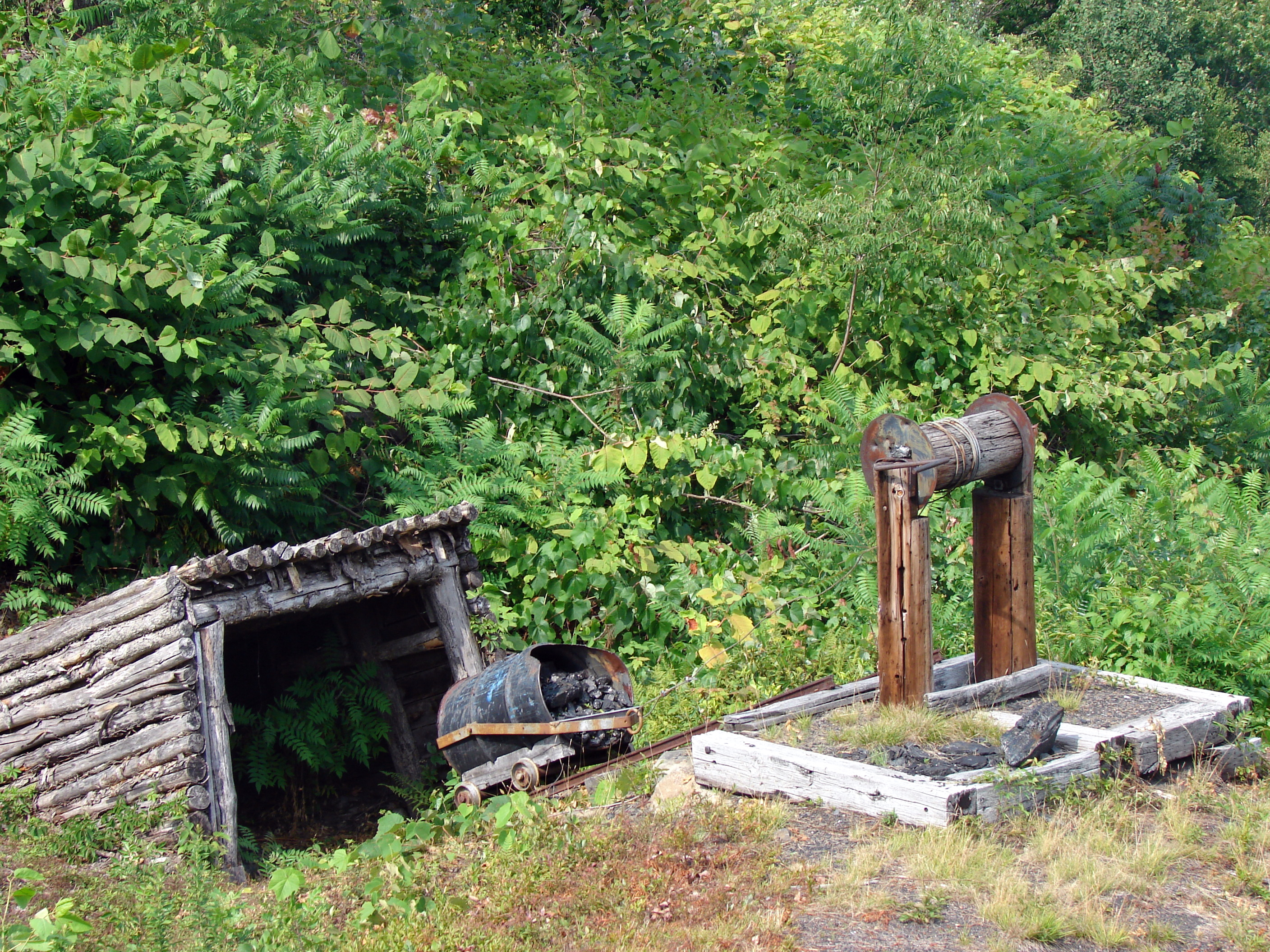 A bootleg mine shaft near Ashland, USA. – One man would get into the little cart you see. Two other men would crank him down into the shaft. The man in the shaft would fill up the cart with coal as fast as he could and yank on the rope when it was full. The two men at the top of the shaft would pull the cart up and work at breaking up the coal so it could be sold in town as heating fuel.